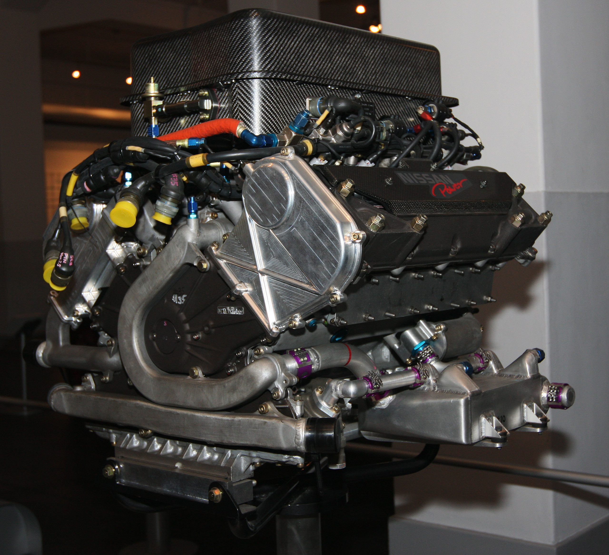 1999 Nissan VRH50A engine (for the Nissan R391 Le Mans Prototype)